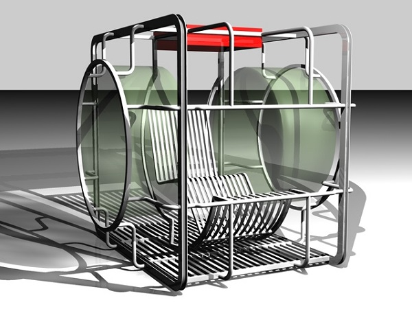 3d-model